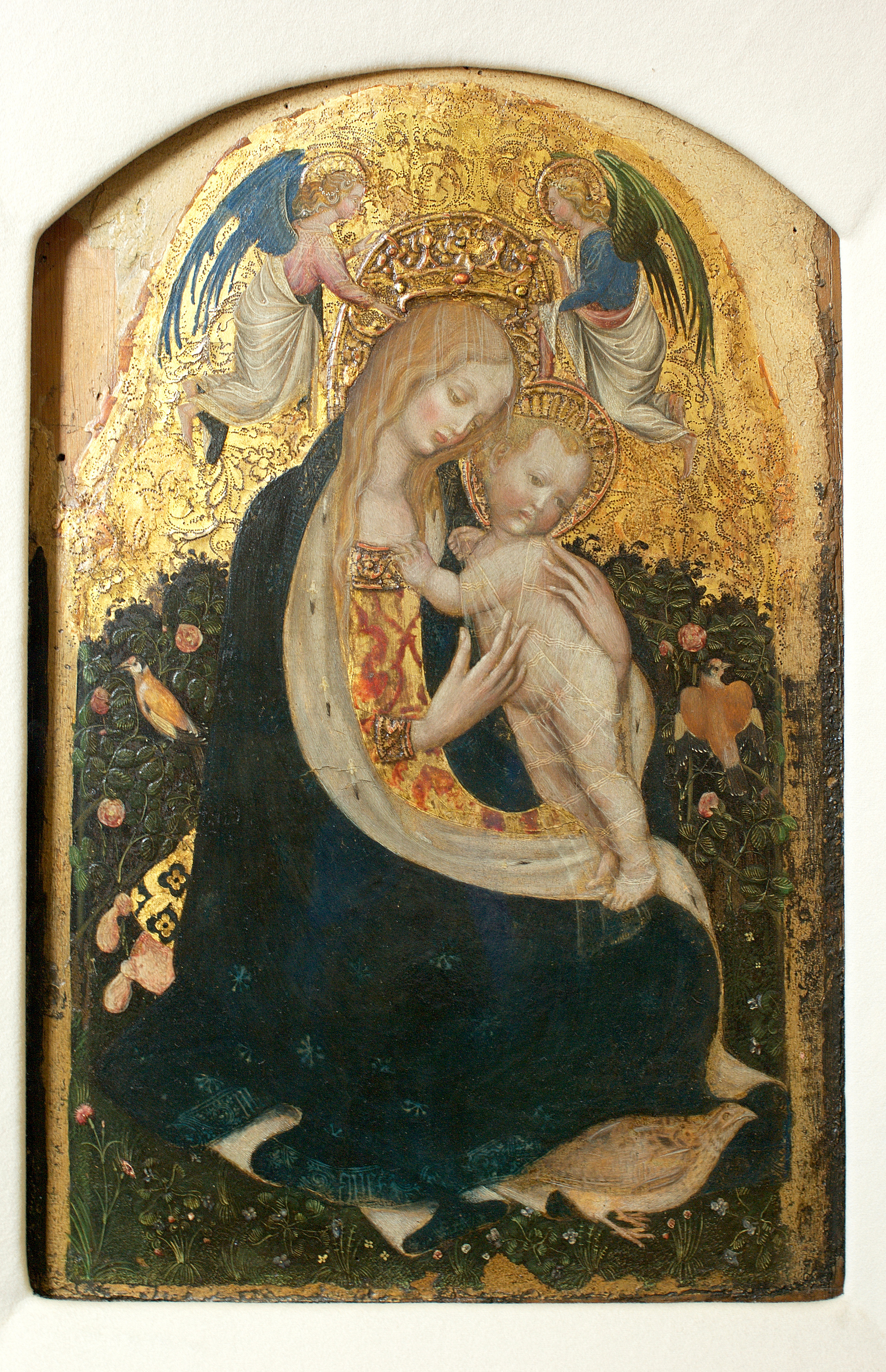 Pisanello Madonna della quaglia - Photo Paolo Villa - Castelvecchio Verona - Pentax K10D SMC - Pentax-FA 35mm F2 - 08-09-2006